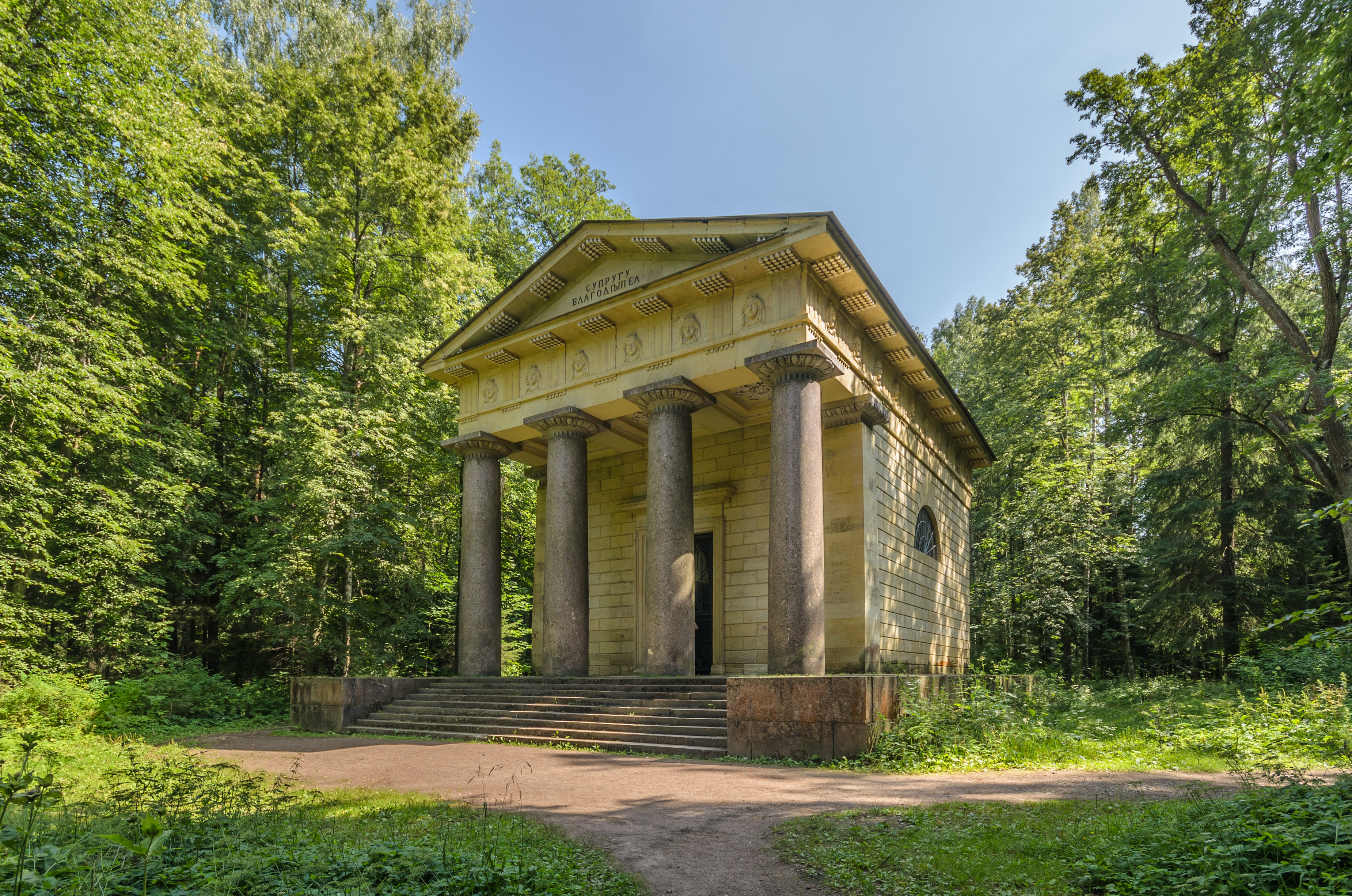 Mausoleum to Husband-Benefactor in Pavlovsk Park